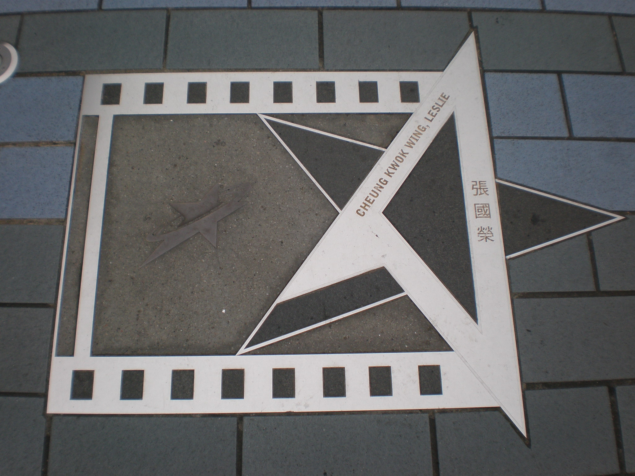 Star of Leslie Cheung Kwok Wing on the Avenue of Stars in Hong Kong.